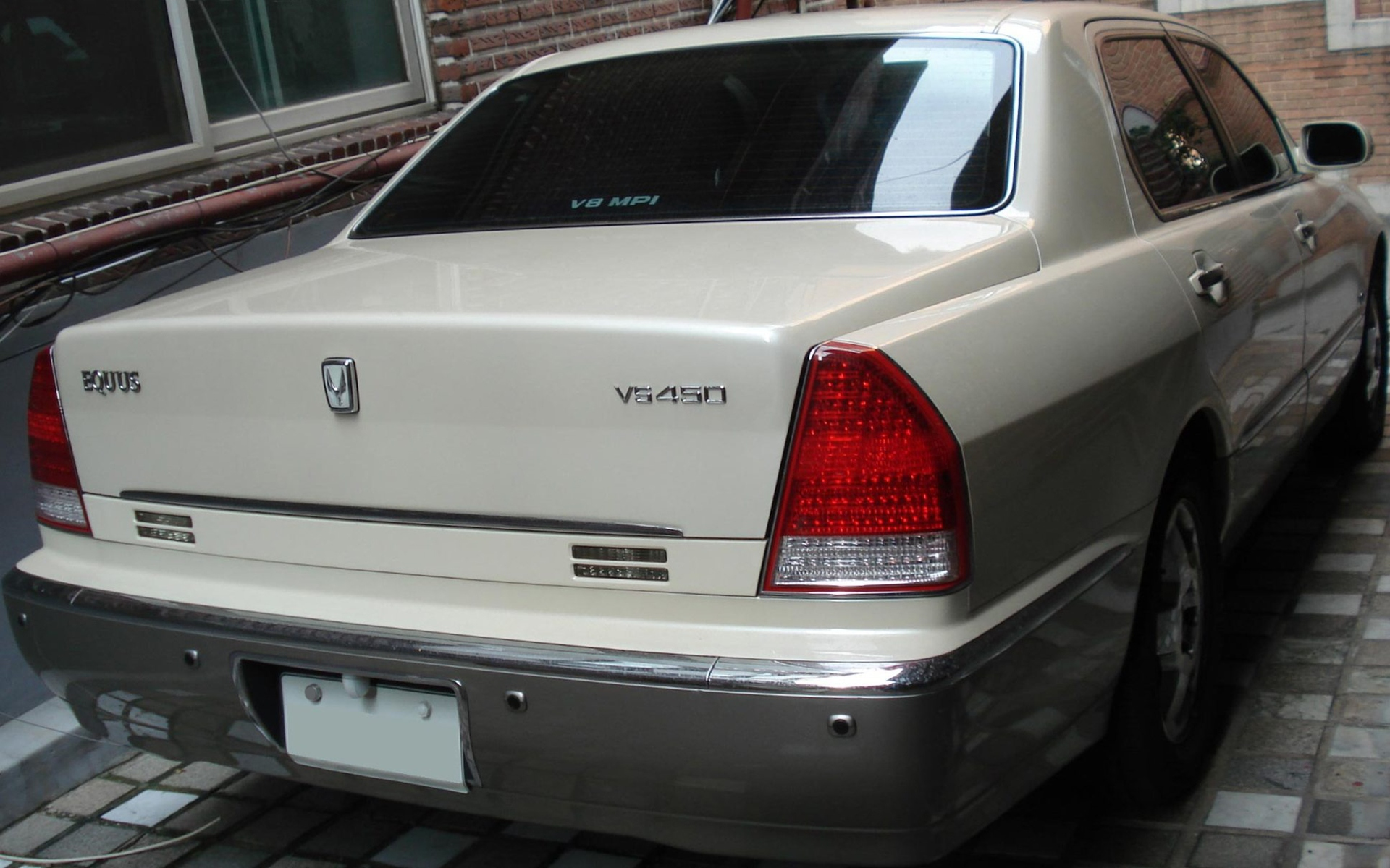 Hyundai Equus